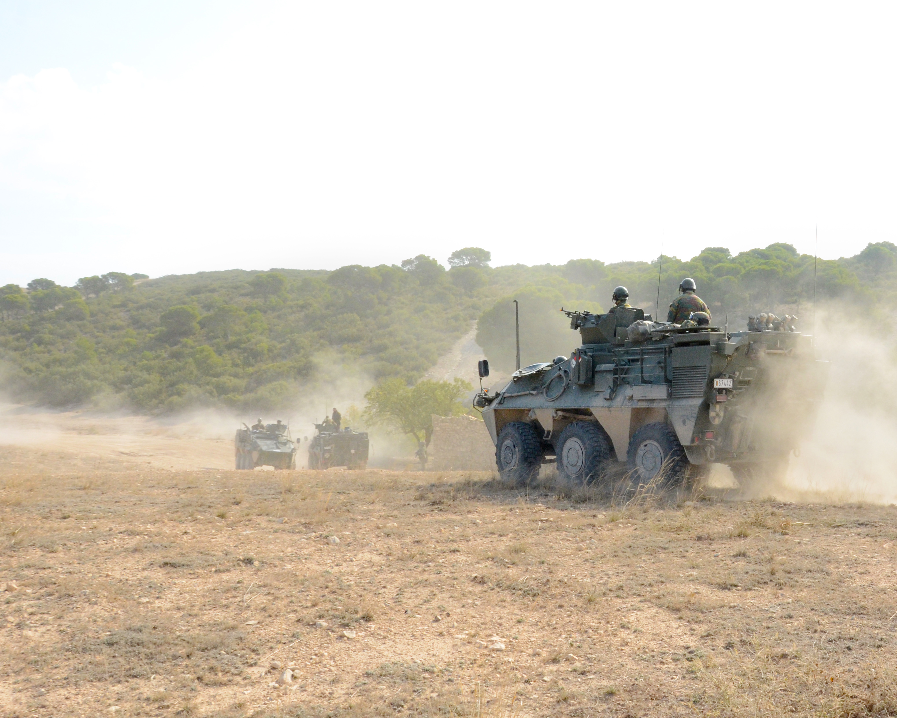 Pandur 6x6 Armored Reconnaissance Fire Support Vehicles of the Belgian army during Trident Juncture 2015 NATO photo by Karl Schoen